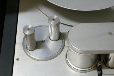 Tension arm of Studer A80 analog tape recorder